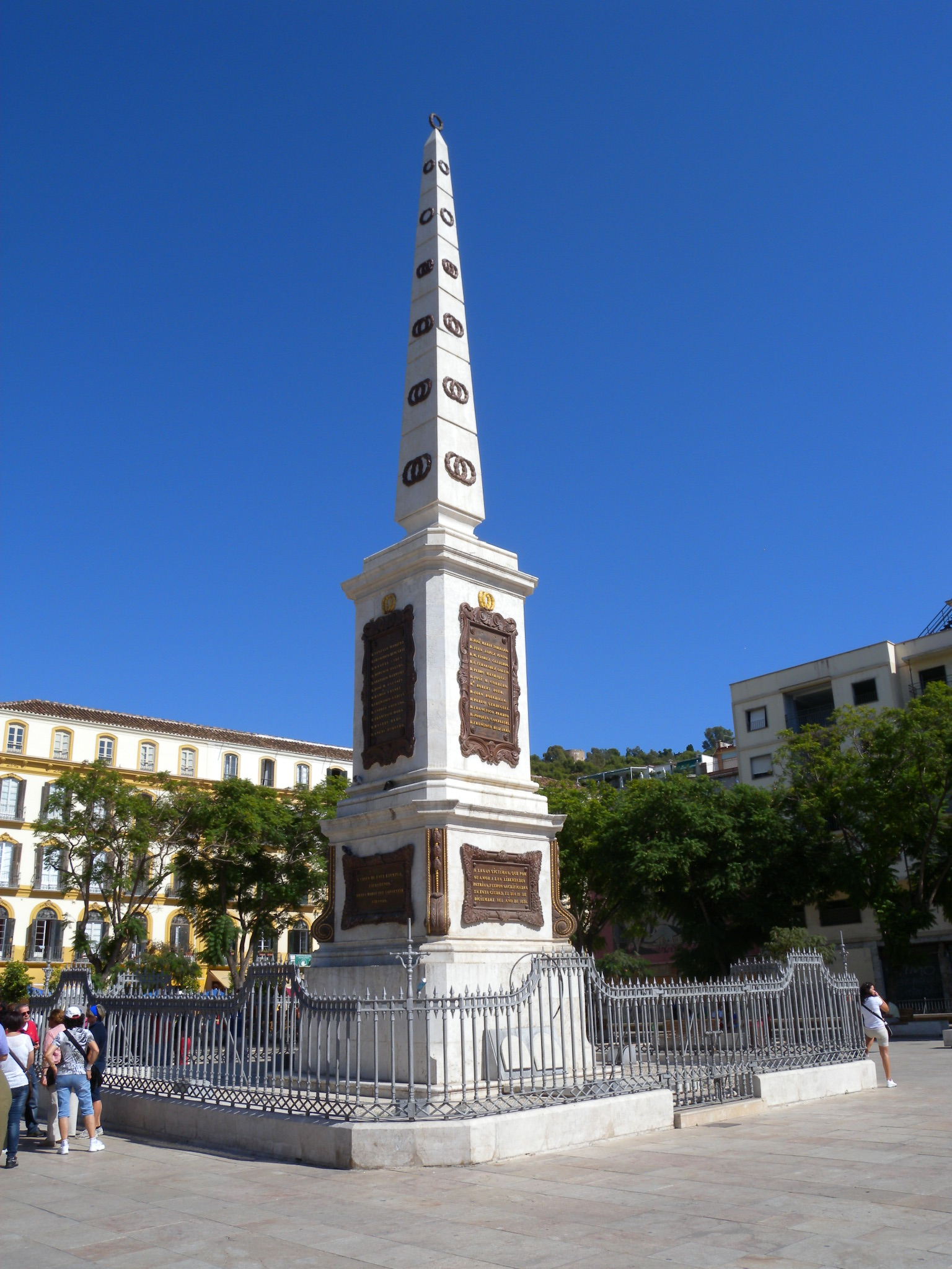 La Merced Square, Malaga, Spain.